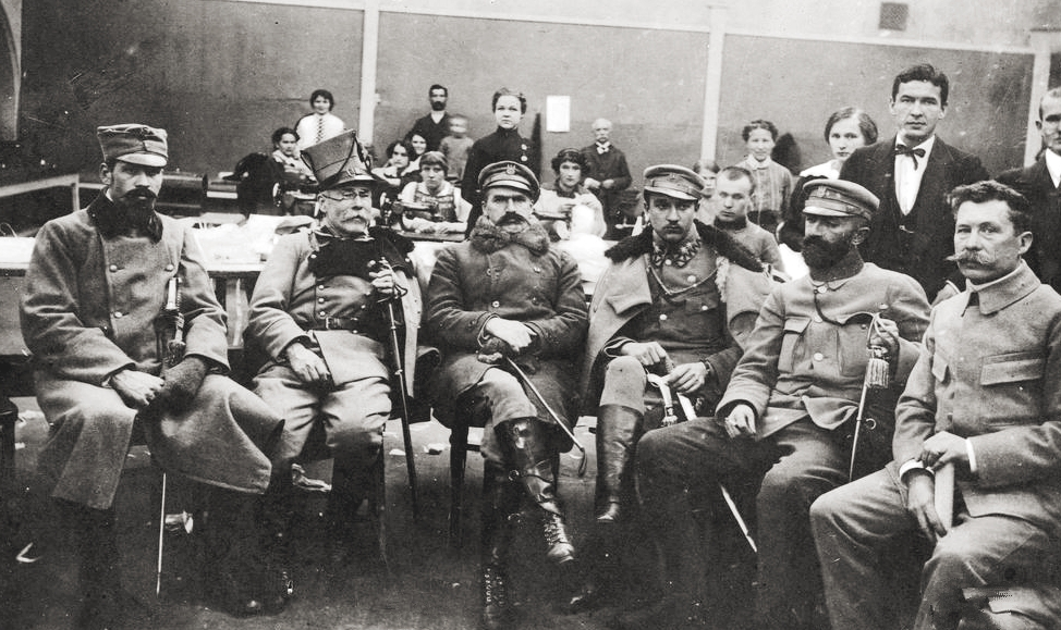 Officers of Polish Legions in Zakopane December 1914. From the left: Tytus Czaki, Wacław Sieroszewski , Józef Piłsudski, Tadeusz Kasprzycki, Walery Sławek, Trojanowski